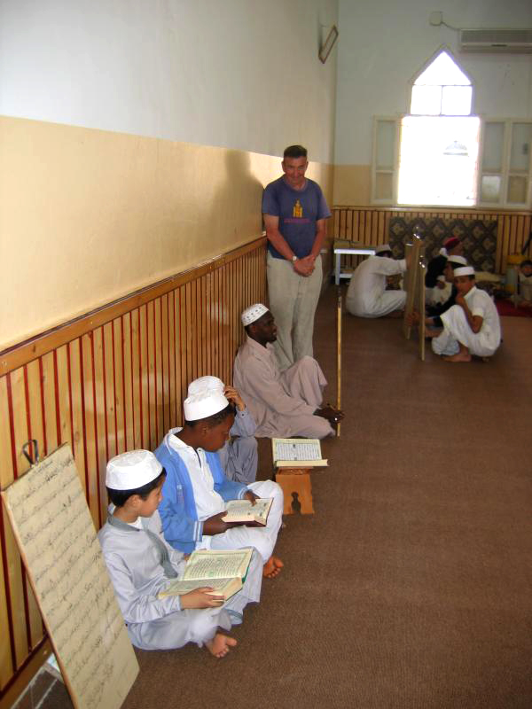 Koran class in Bilal bin Rabah Mosque, Bayda, Libya